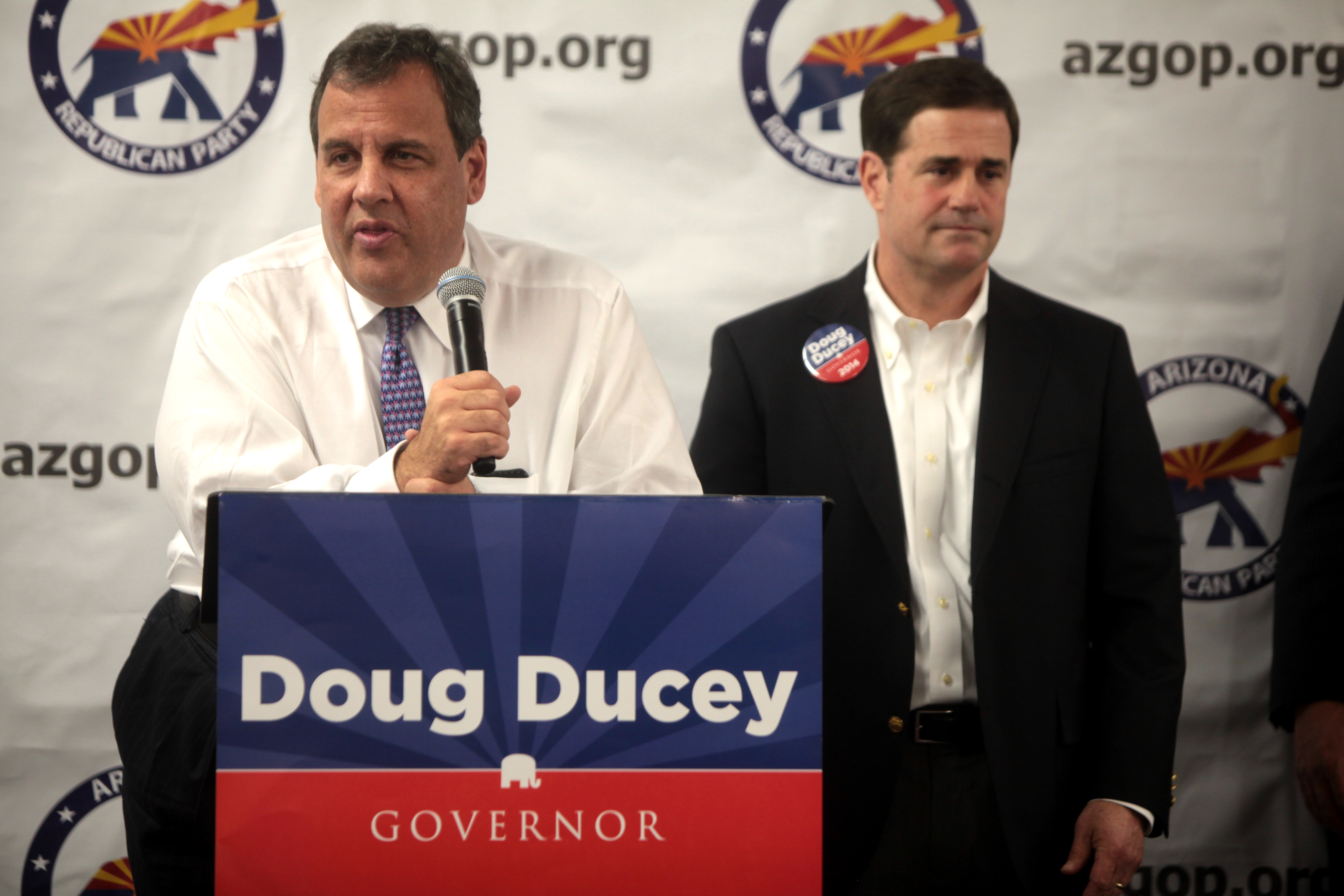 Chris Christie and Doug Ducey speaking in Phoenix, Arizona.